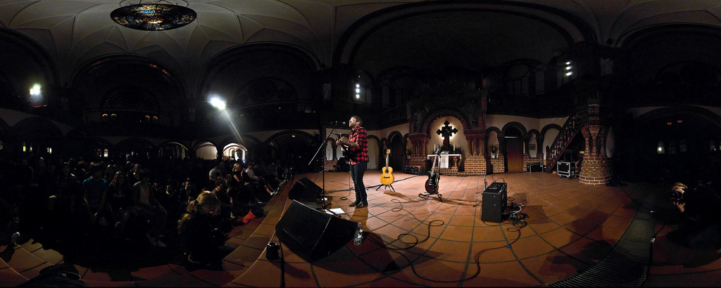 Dallas Green - Live in Berlin in Concert. 360° panoramic image - shot in the "Passionskirche"